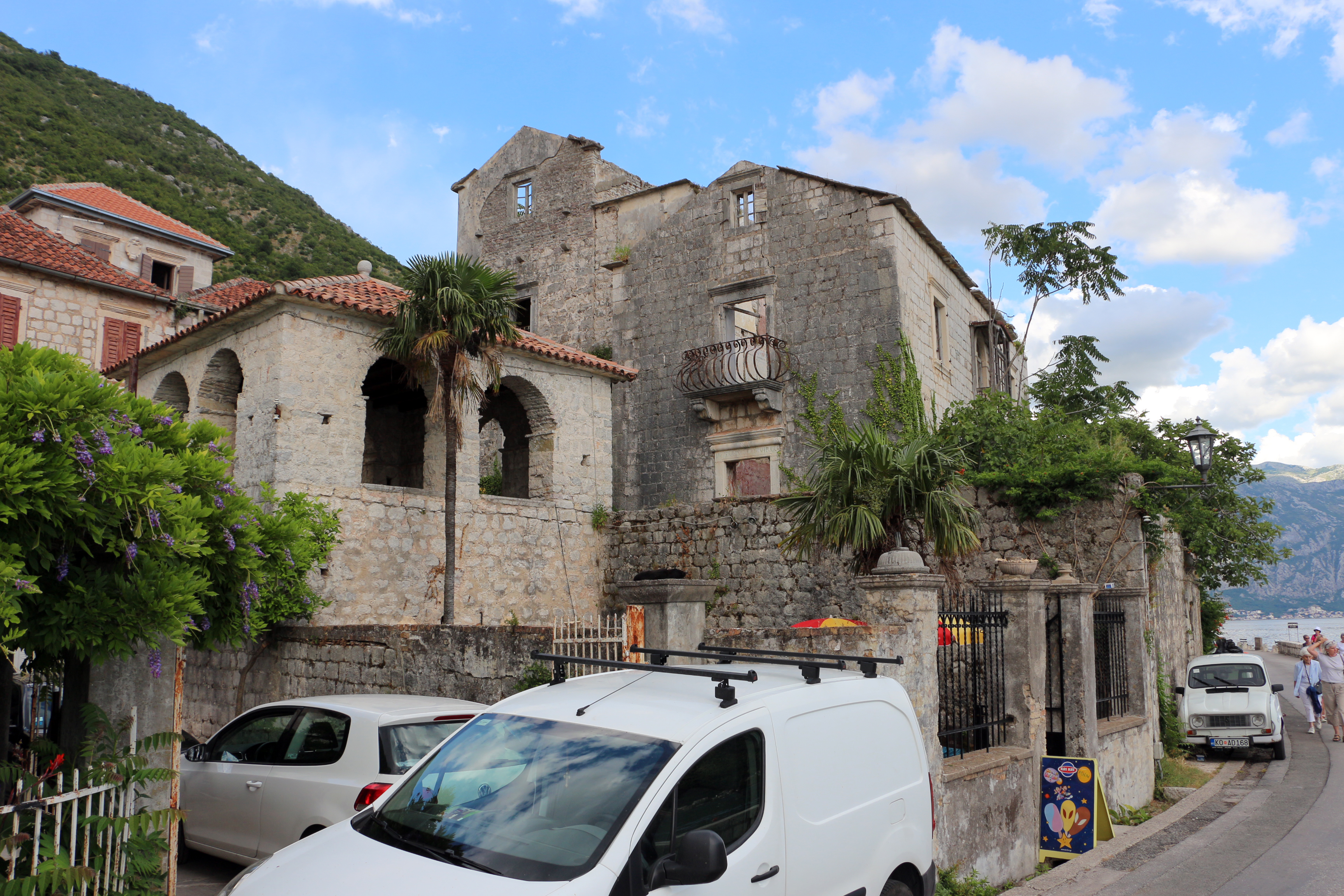 Perast